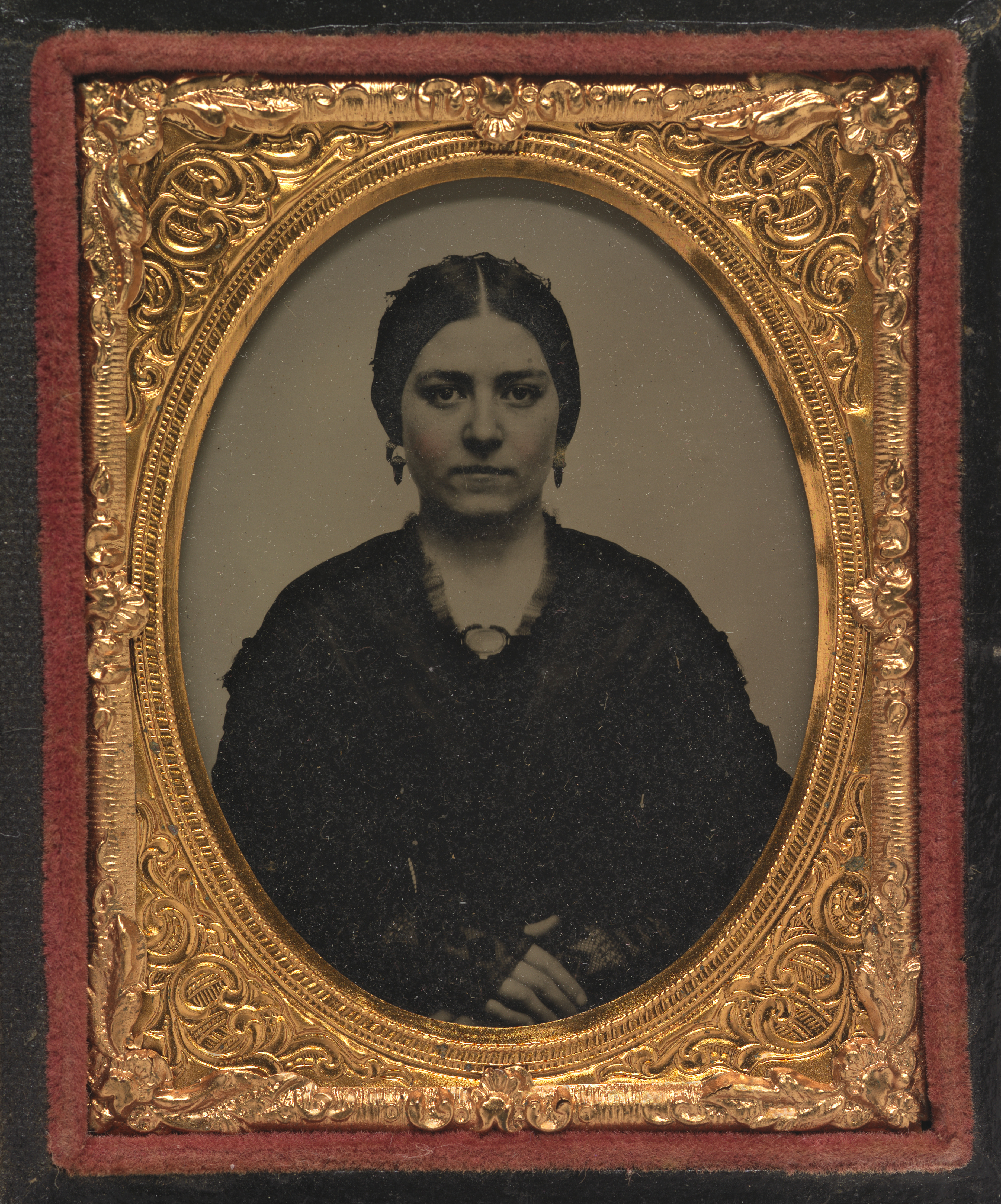 Mary Ann Brown Patten (1837 - 18 Mar 1861) who commanded her husband's ship after he fell ill in the mid-19th century. She became something of a national celebrity.